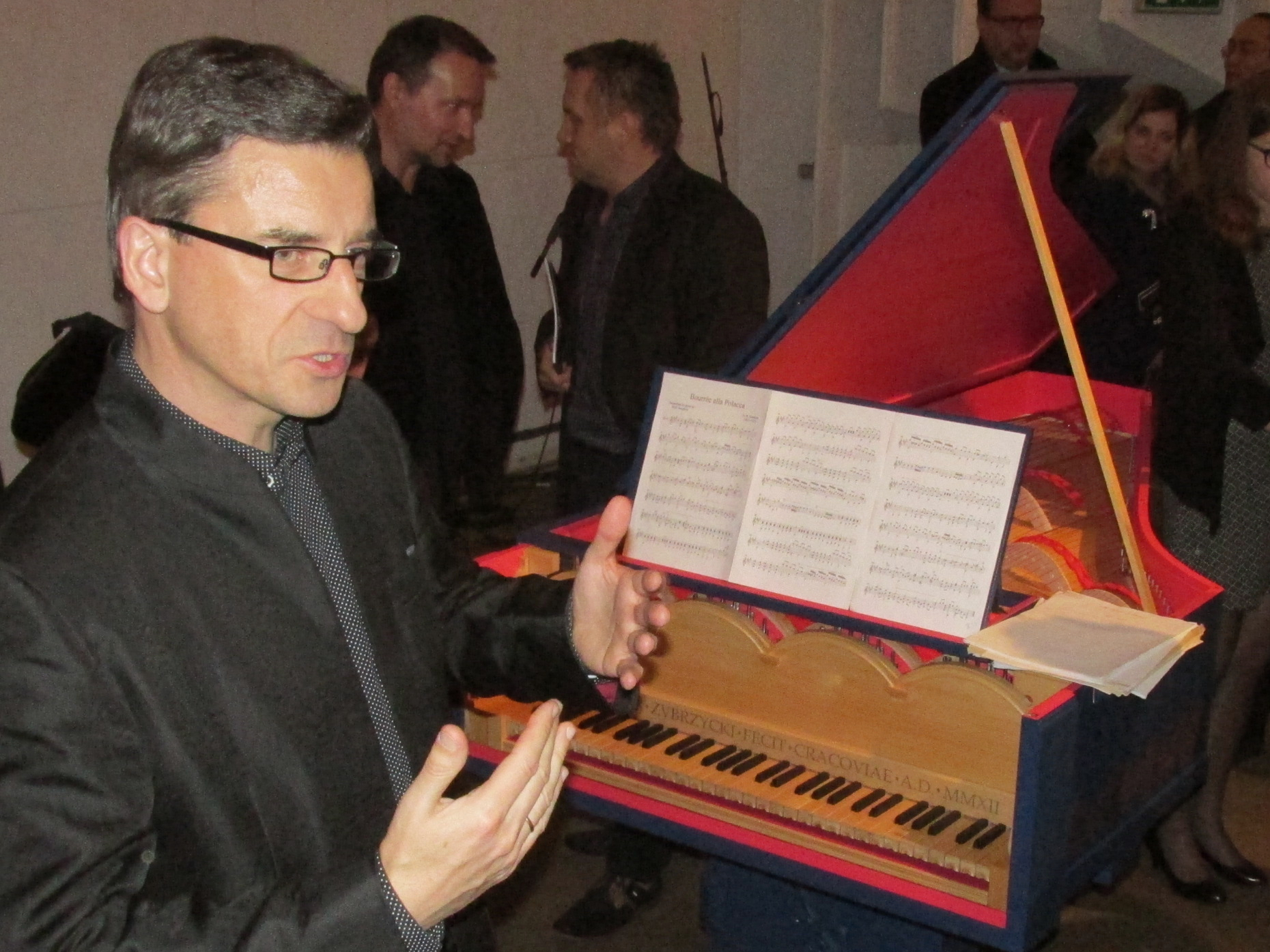 Sławomir Zubrzycki with his musical instrument "viola organista".